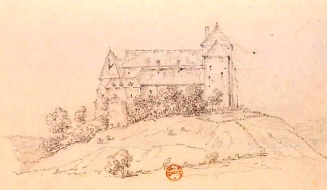 French castle of Brandon, drawing 19th century.